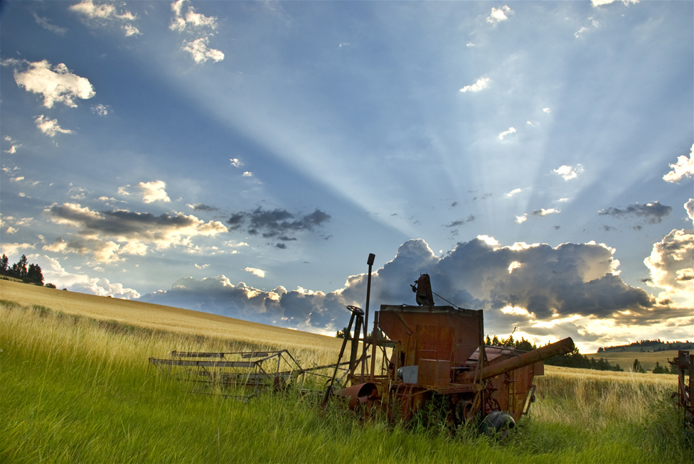 Old combine harvester somewhere in the USA. – "This combine was in the same place the last time I photographed it on 1982. Not much has changed."